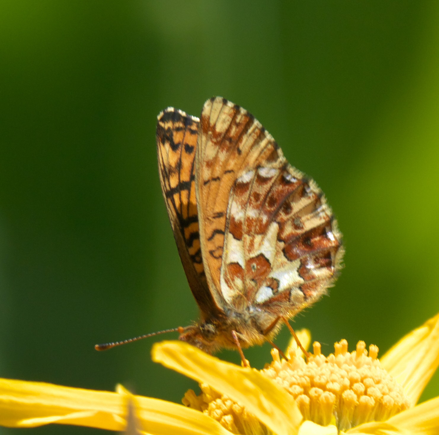 Boloria chariclea helena, Species: Purplish Fritillary - Hodges #4475, ID Confidence: 98